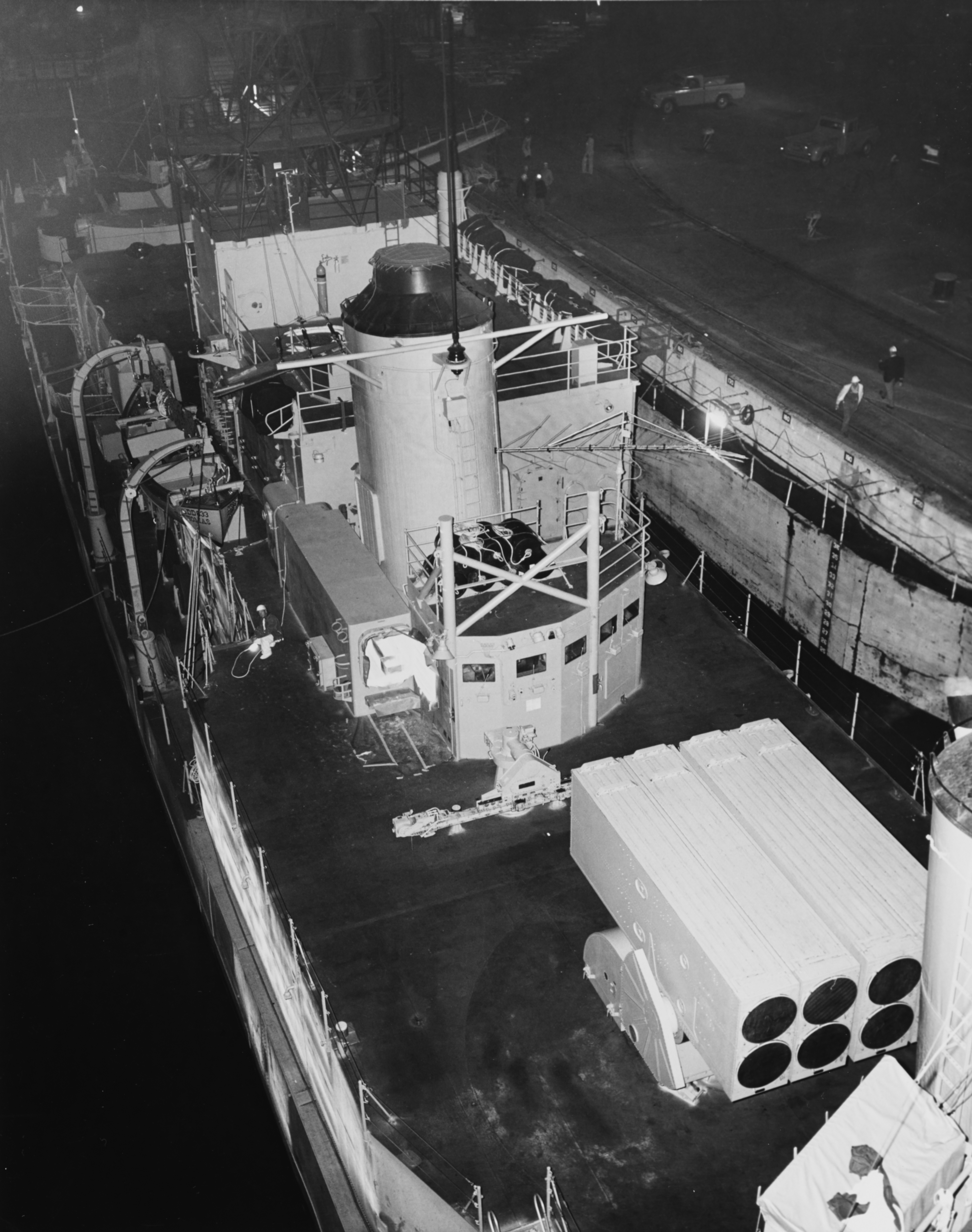 The U.S. Navy destroyer USS Herbert J. Thomas (DD-833) at the completion of her FRAM (Fleet Rehabilitation and Modernization (program)) modernization at the Mare Island Naval Shipyard, California (USA), on 6 August 1965: View amidships, looking aft from the starboard bridge, showing ASROC (antisubmarine rocket) reload facilities and launcher.